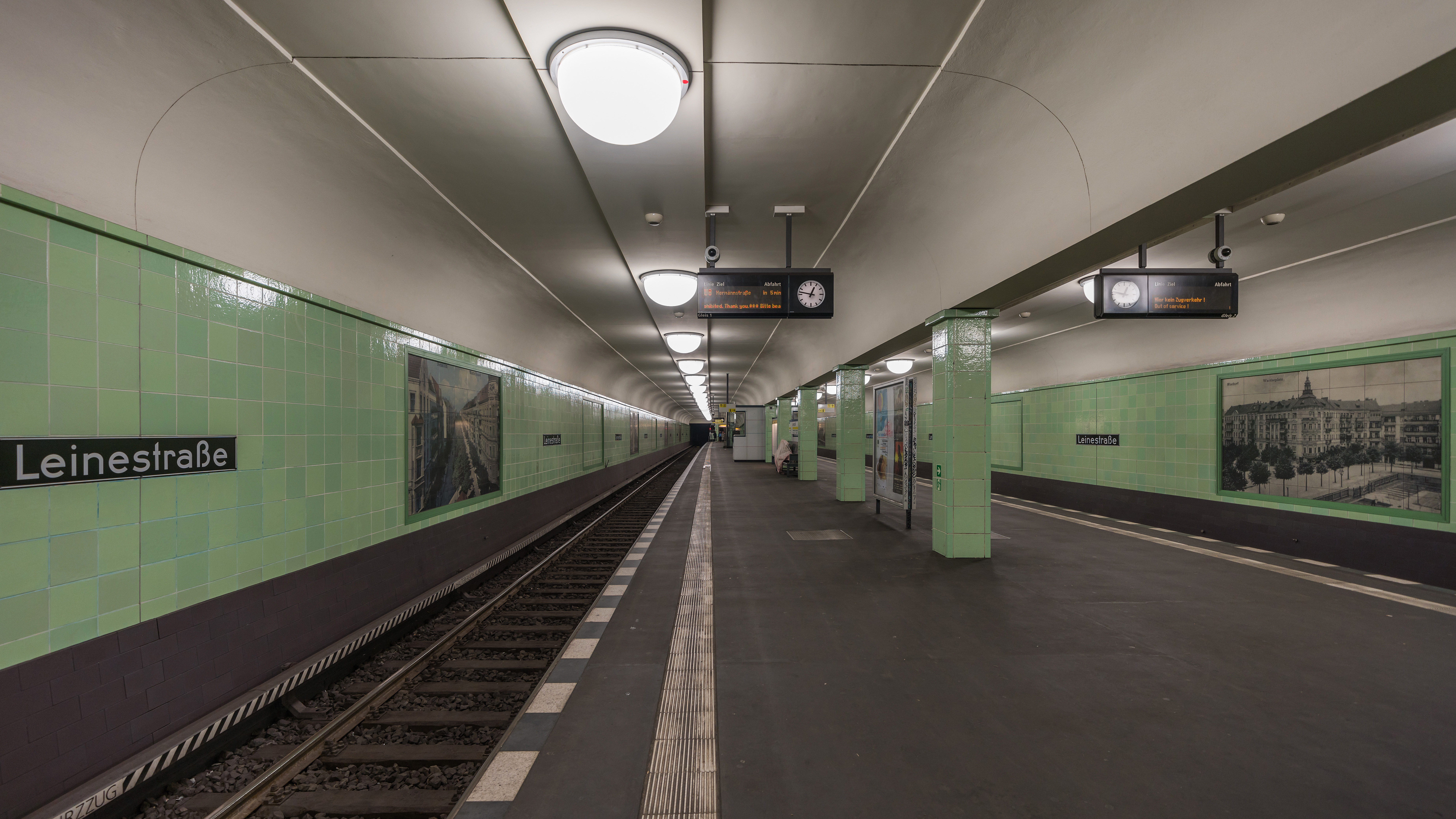 Platform of Leinestraße U-Bahn station, Berlin (Germany)